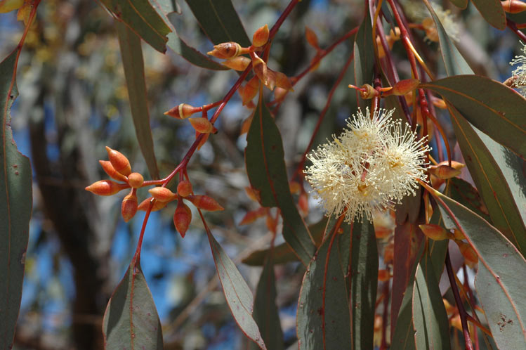 Flowers and buds of Eucalyptus dwyeri near Bethungra, about 40 km NE of Junee, New South Wales